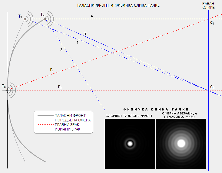 ТАЛАСНИ ФРОНТ И ФИЗИЧКА СЛИКА ТАЧКЕ